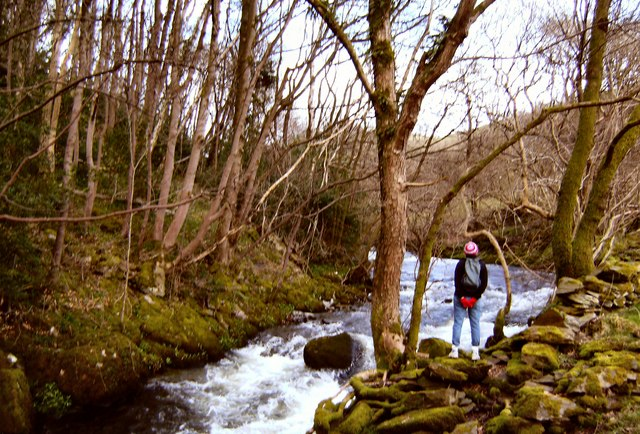 The Sprint in Spate The River Sprint making its way to join the River Kent and thence to the Irish Sea via Morecambe Bay. This busy little river, with its Daffodils, Blue Bells and Ransom is pure delight in springtime.